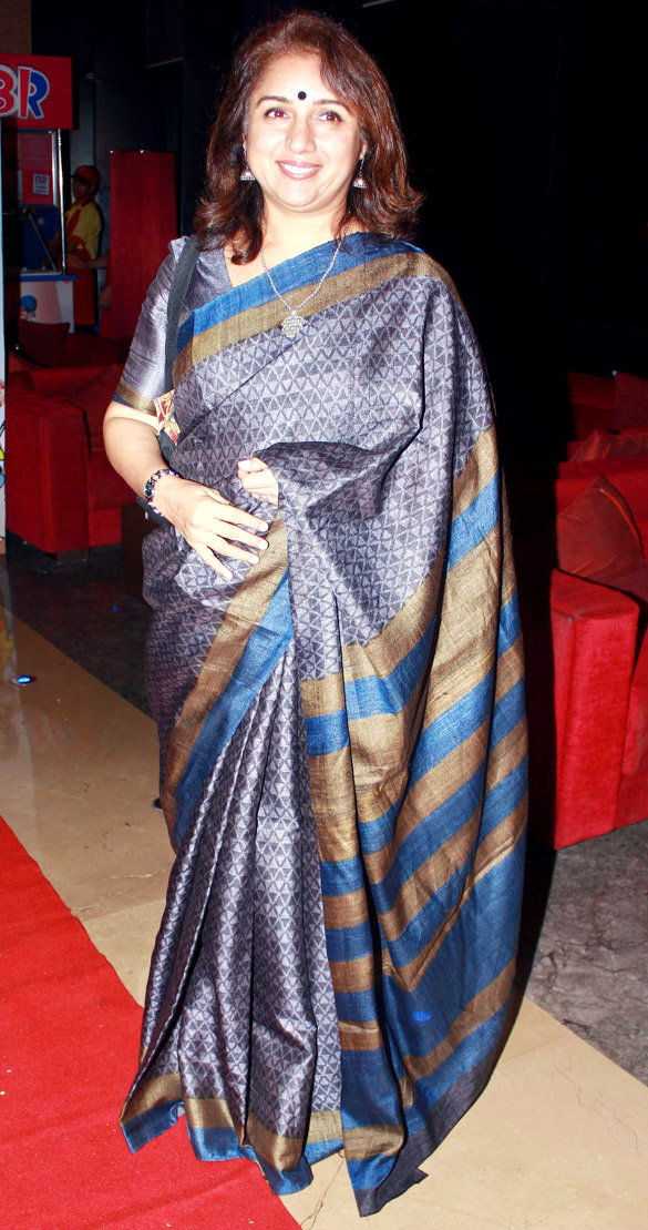 Revathi at the screening of Masaala at PVR Phoenix.